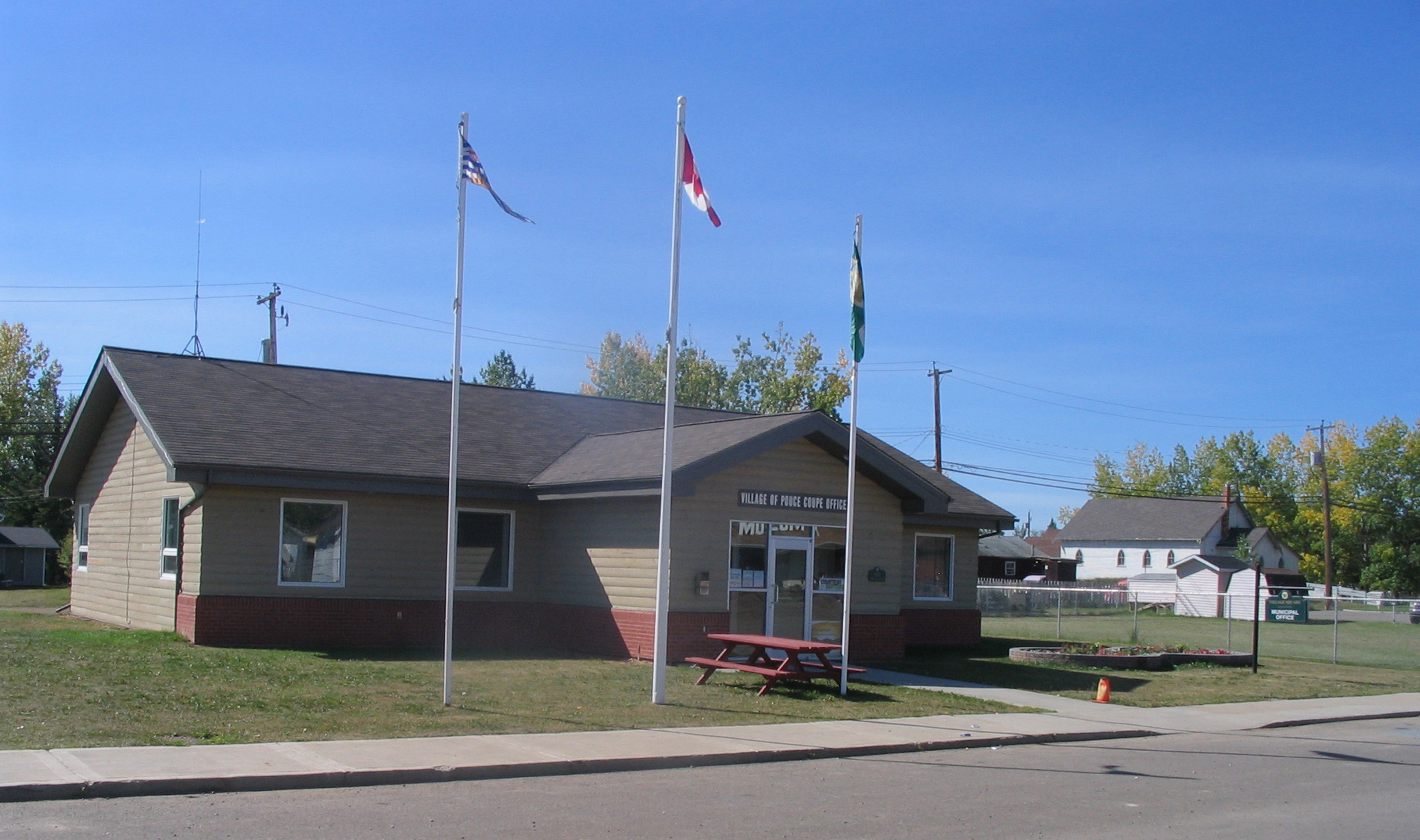 Source: maclean25 photo Village office in Pouce Coupe, BC